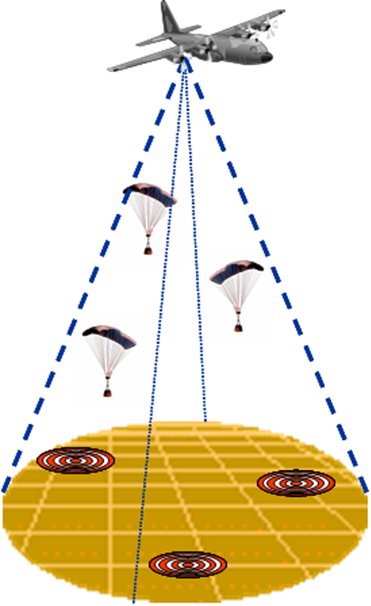 Illustration showing how multiple airdrops with multiple drop zones, given they are within 25 miles of each other, can be accomplished in one pass using the Joint Precision Airdrop System